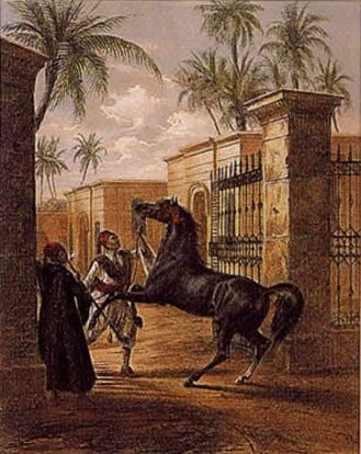 The Black Horse, painting by Heinrich von Mayr (1806-1871).